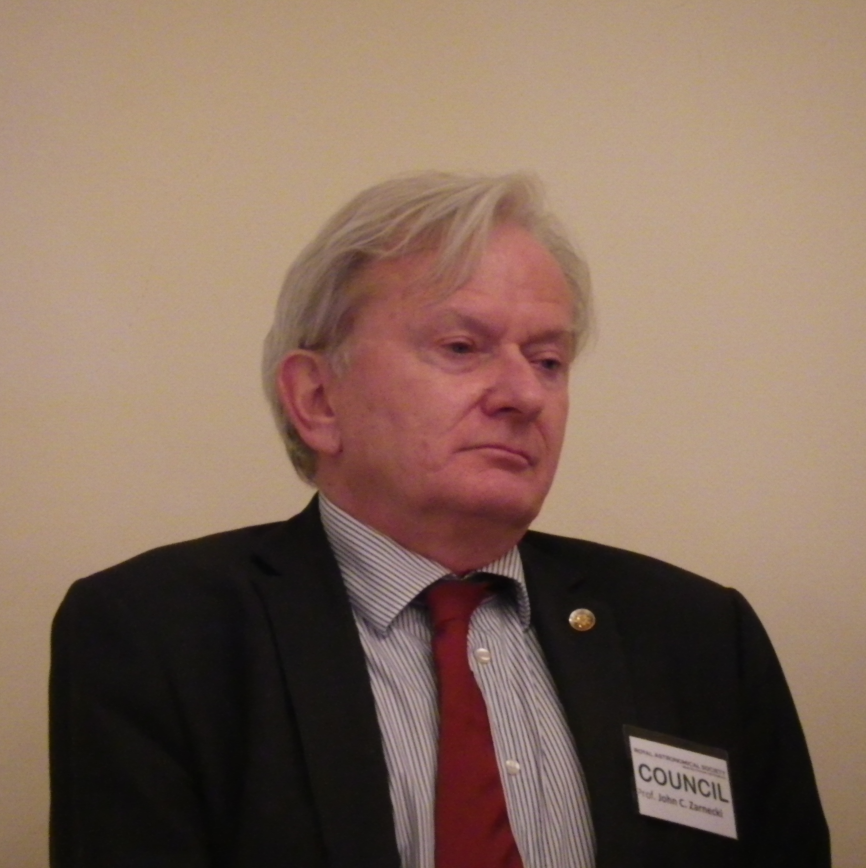 John Zarnecki chairing the 11 December 2015 ordinary meeting of the Royal Astronomical Society